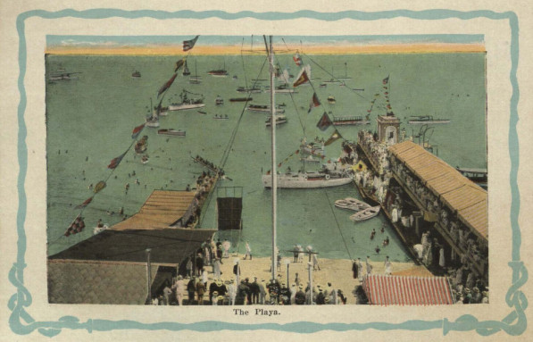 Playa, Havana